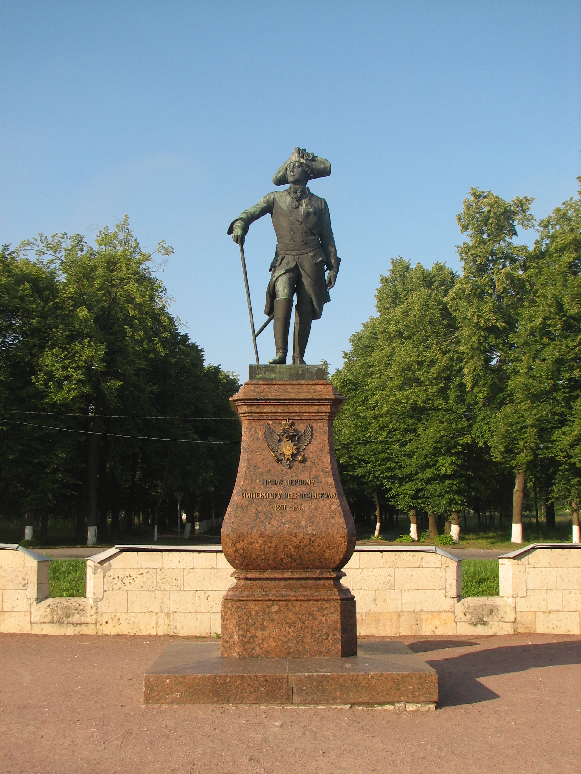 Monument to Paul I in Gatchina, Russia